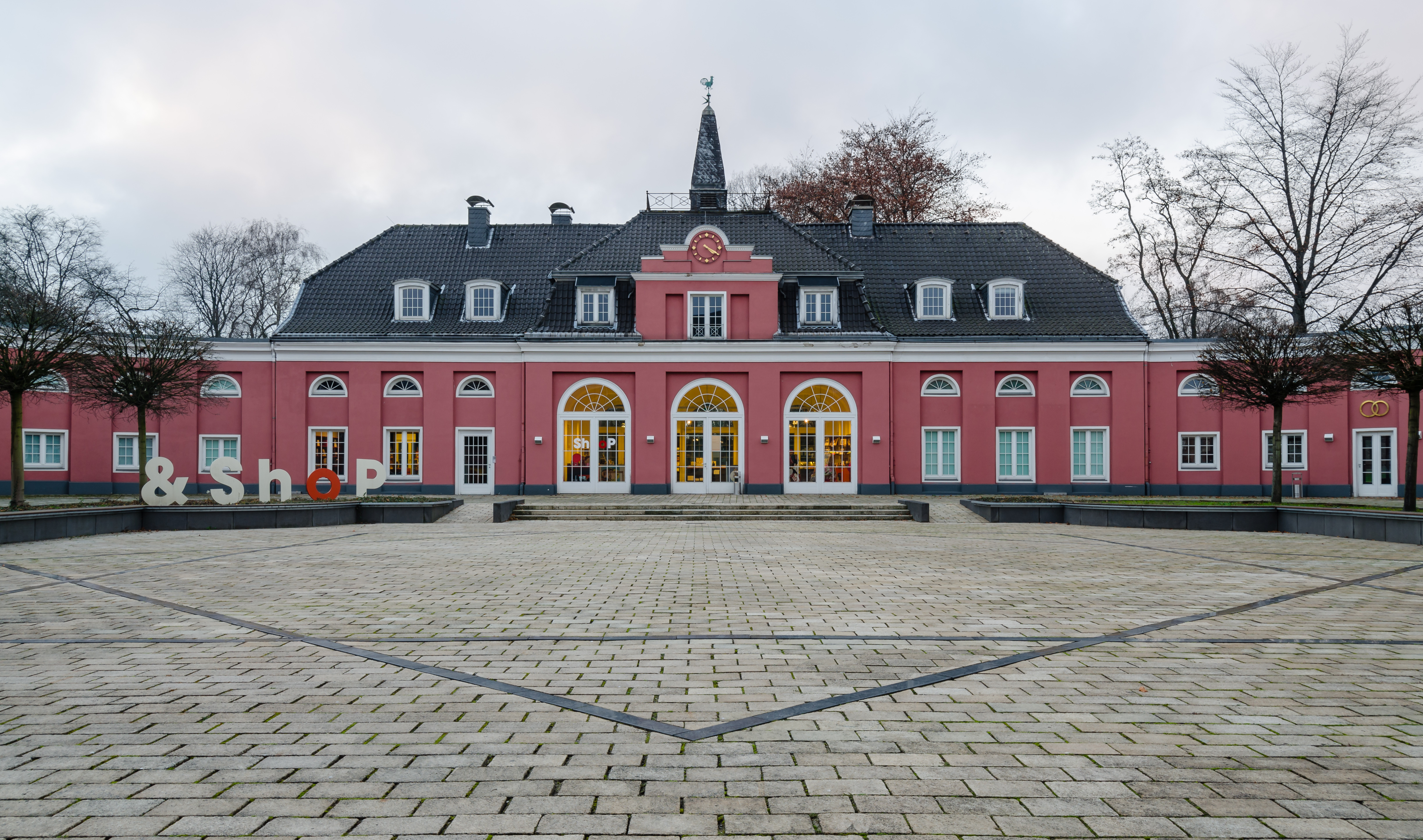 Small castle building of castle Oberhausen